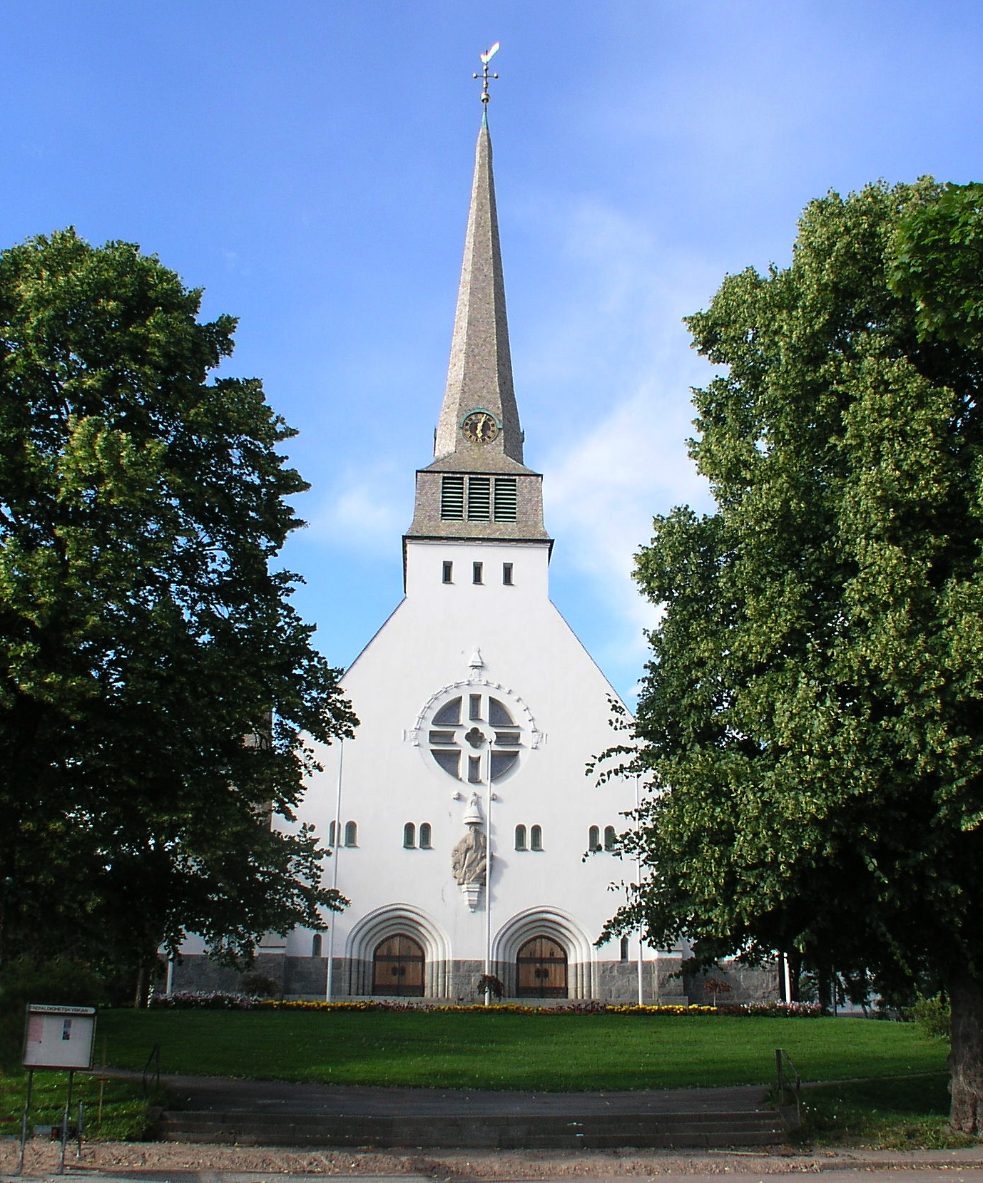 Trefaldighetskyrkan, Arvika, Diocese of Karlstad, Sweden. The picture was taken the 11th of July 2003 by Håkan Svensson (Xauxa)